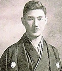 Japanese politician Kan Abe（1894－1946）.